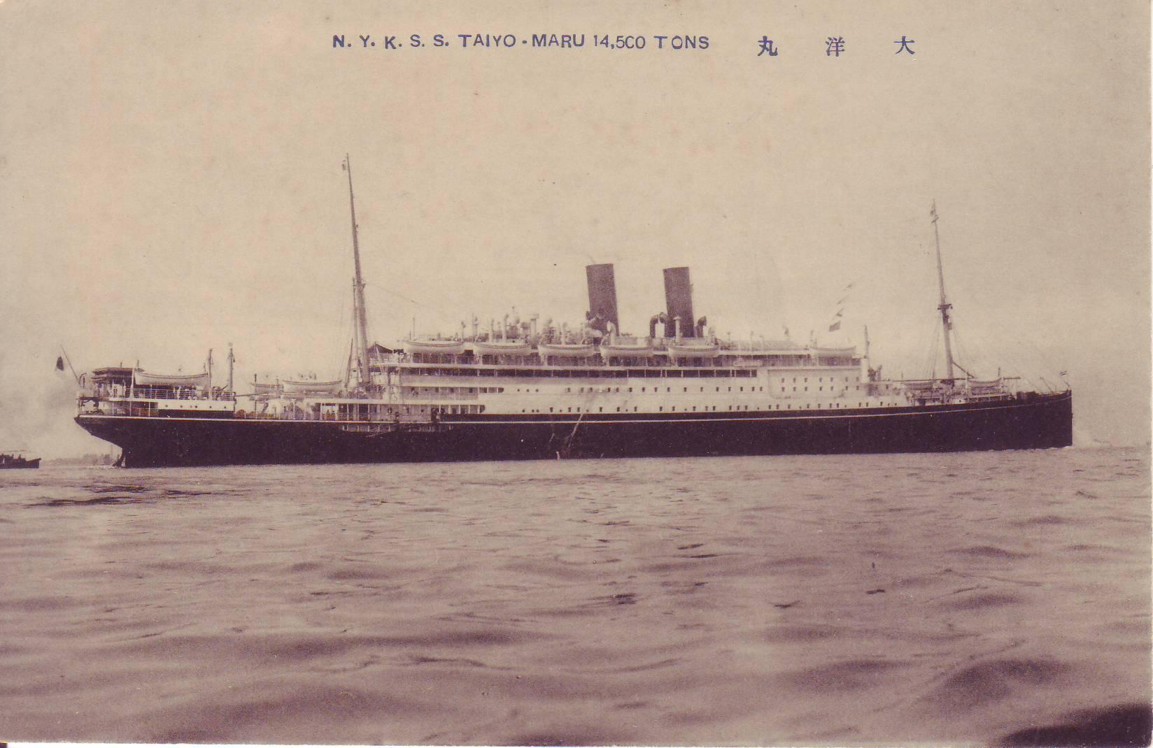 NYK Line Taiyo Maru, Postcard was created in the late 1920s